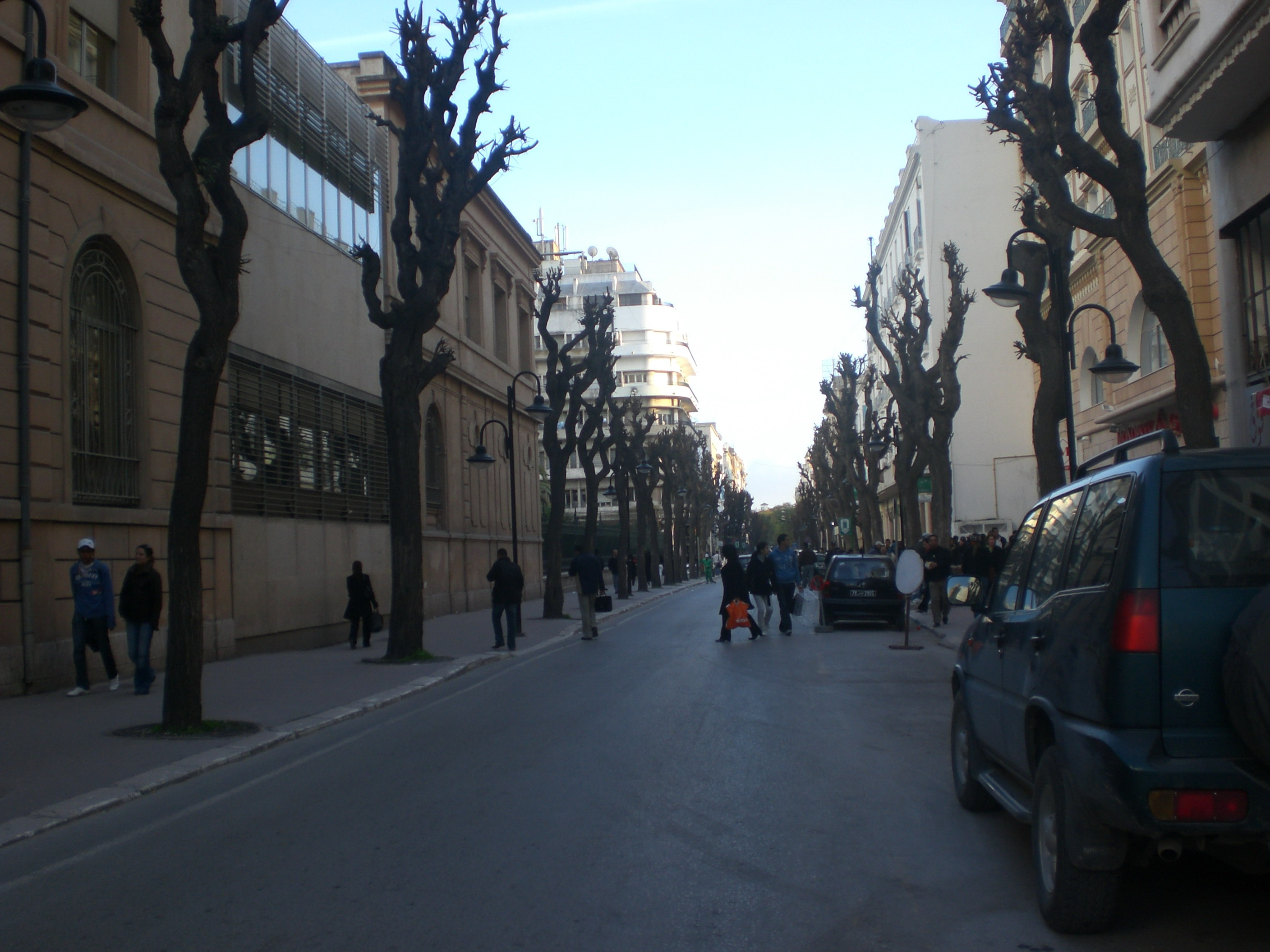 Nasser Avenue-Tunis